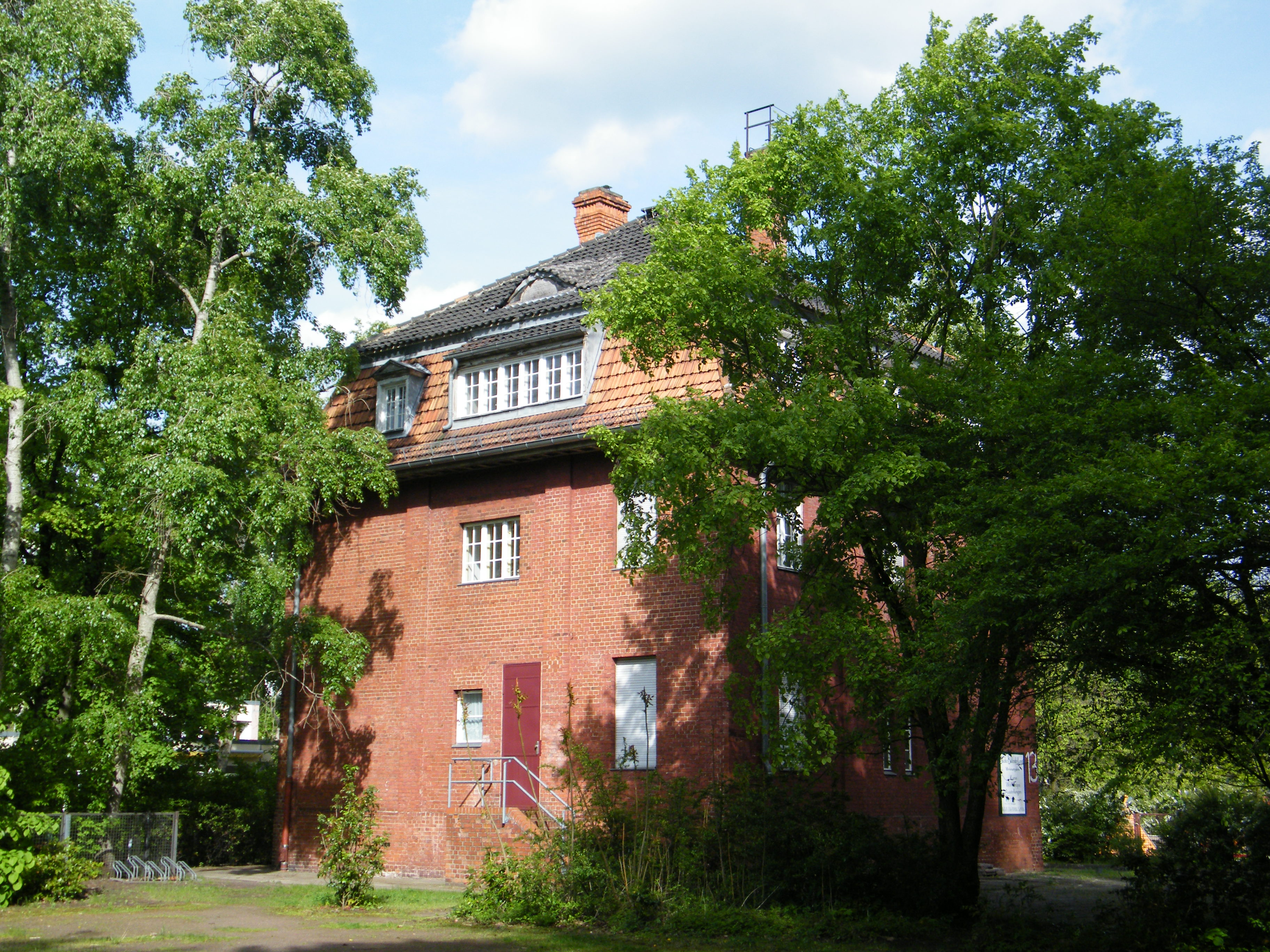 Berlin-Lichtenberg, Frankfurter Allee Süd, John-Sieg-Str. "Kulturvilla"